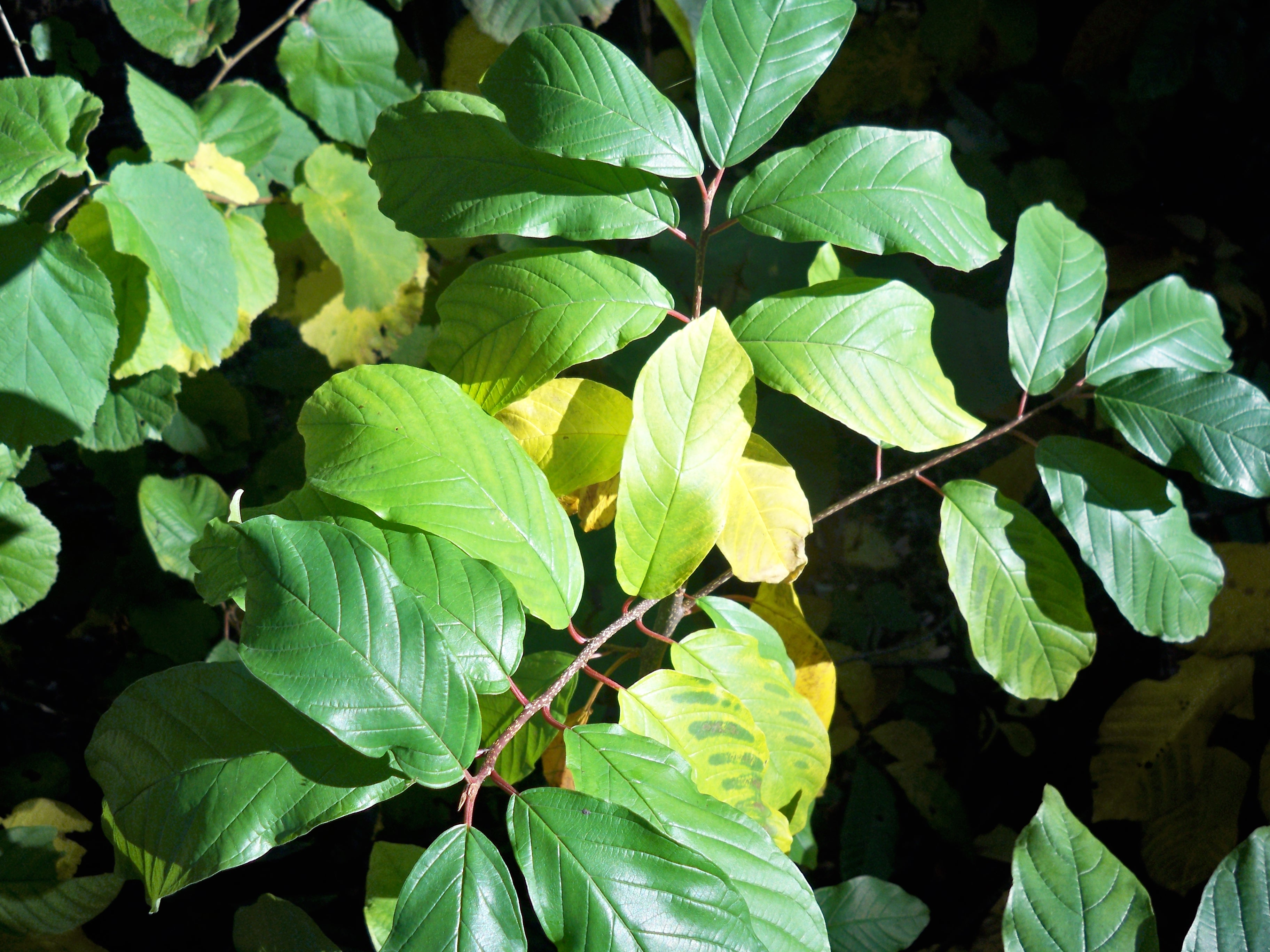 Alder Buckthorn (Frangula alnus, synonym: Rhamnus frangula). Please note the signs of a magnesium deficiency.